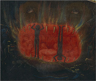 Detail of an illustration by Simon Marmion for the Visio Tnugdali, a medieval vision of the beyond; it shows the gaping mouth of a monster, in whose belly poor souls are tortured. The mouth is held open by two giants, one of them standing on his head.